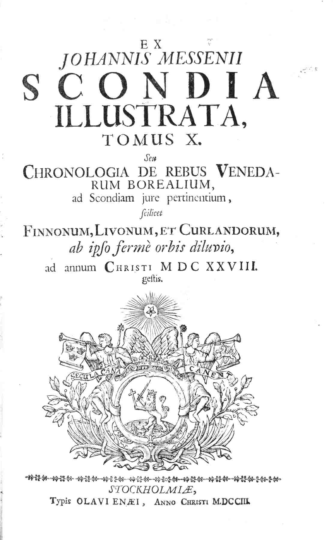 Cover of the book 'Scondia illustrata Tomus X...' written 1628-1636 by Johannes Messenius in prison of Kajaani Castle, Finland.